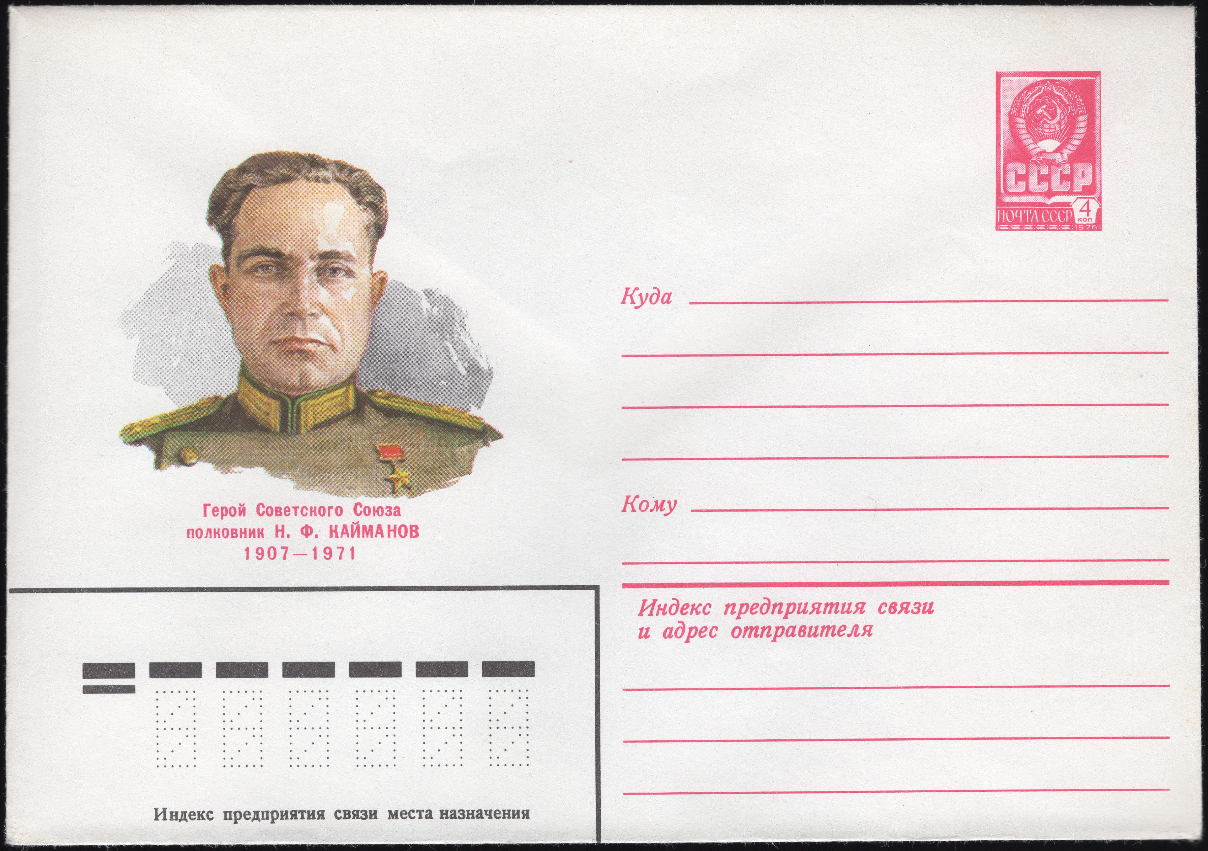 Hero of the Soviet Union Colonel Nikita Kaymanov. 1907-1971. Series: Heroes of the Soviet Union. Artist Peter Bendel.